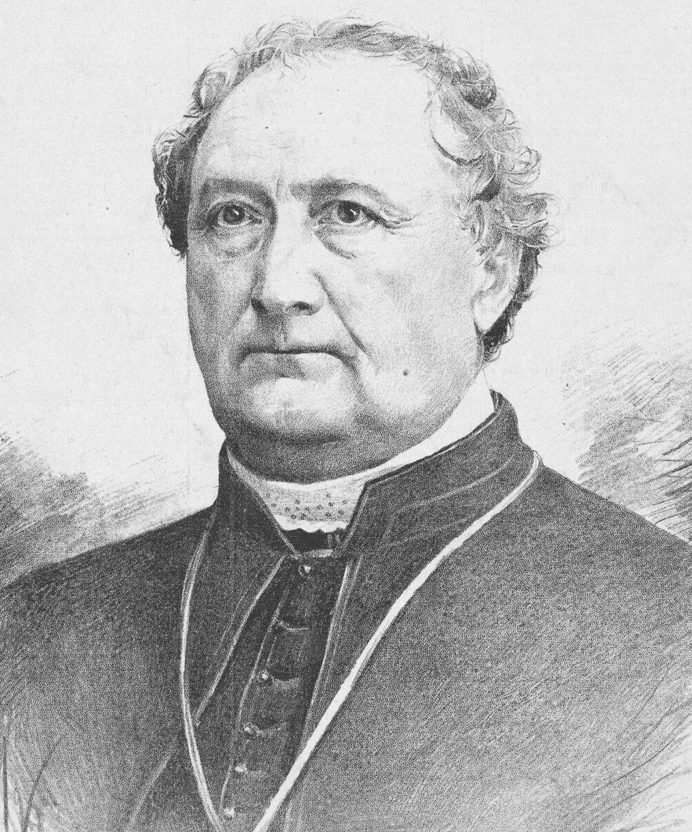 Portrait of Jan Valerián Jirsík, 4th bishop of České Budějovice